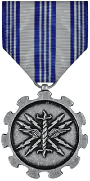 Air Force Achievement Medal